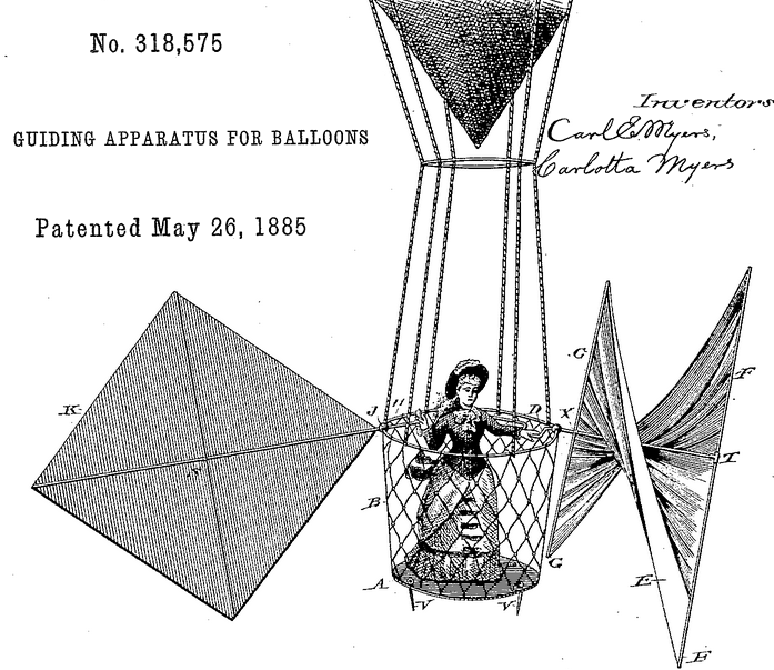 Myers Guiding Apparatus for hydragen lighter-than-air balloons